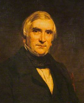 Portrait of Henry Stephens (1795–1874), Agricultural writer (cropped)